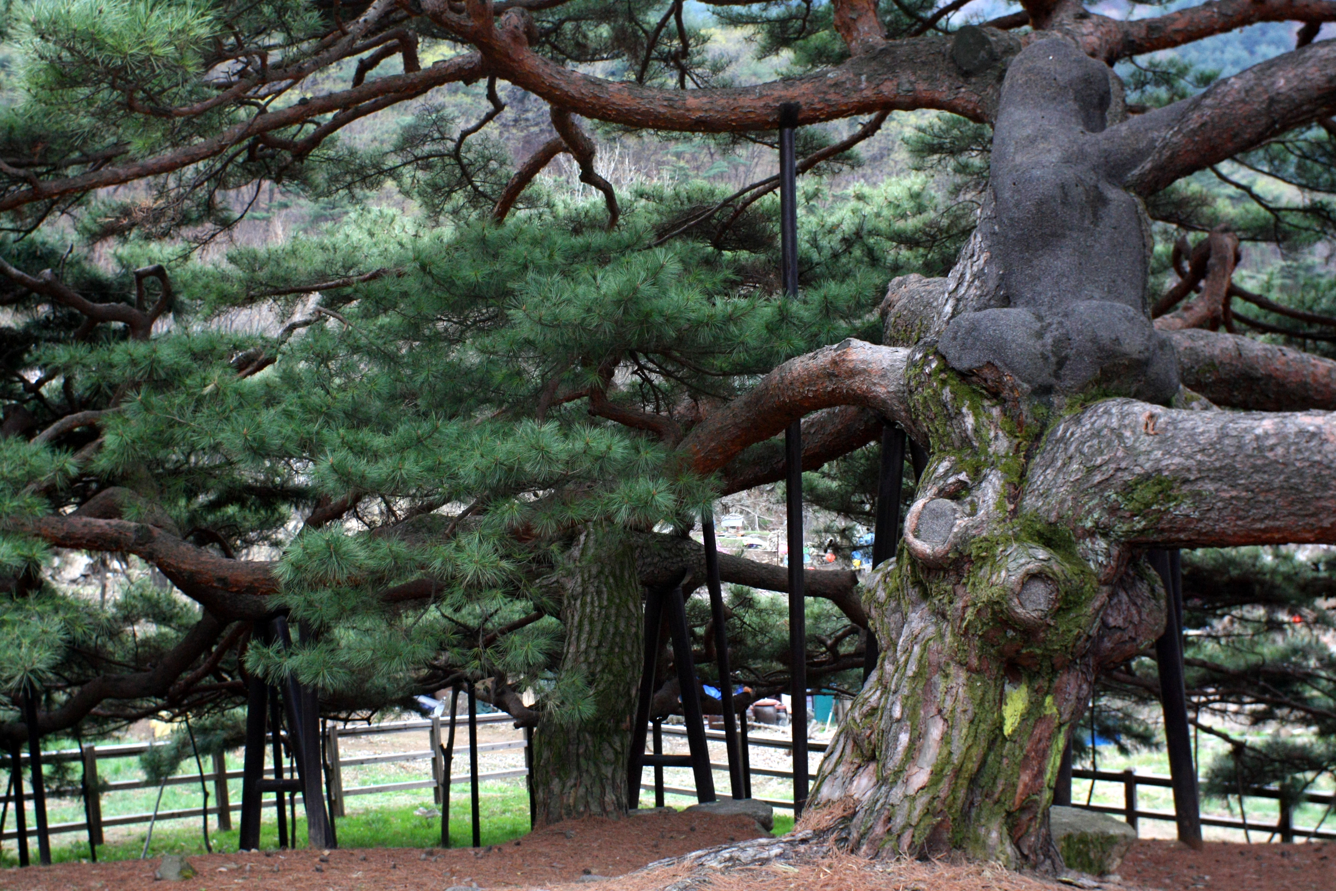 Bubusong(Husband and Wife pine tree) in Jikdu-ri, Pocheon. Korean natural monumnt no.460 Pinus densiflora for. pendula Mayr